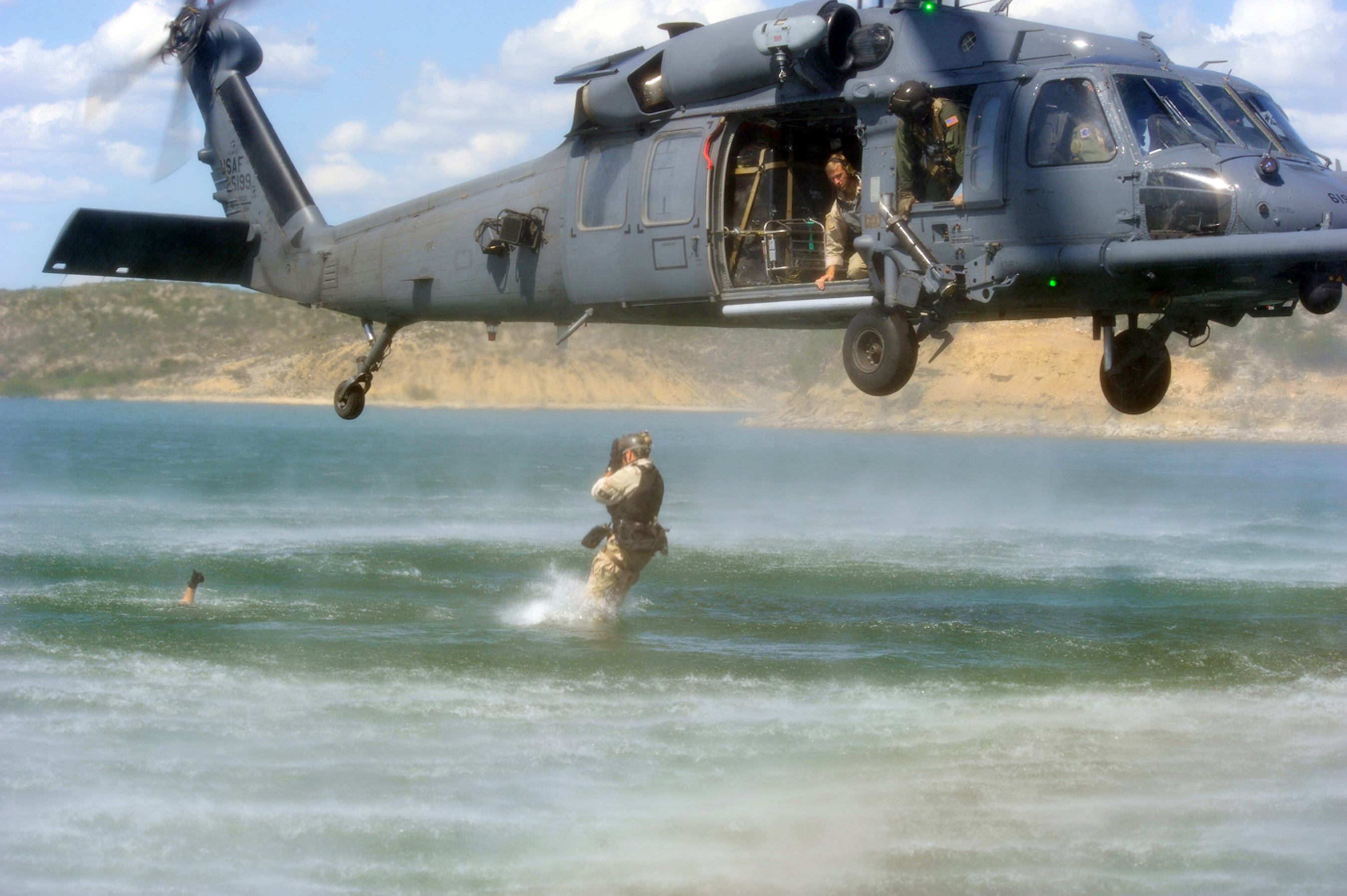 Staff Sgt. Kevin Myerscough enters the water after jumping from an HH-60 Pave Hawk helicopter, while Master Sgt. Michael Atkins gives the safe thumbs-up and Senior Airman Brent Moore provides oversight. Exercise Resolute Angel, hosted by Laughlin Air Force Base, Texas, was conducted May 29 to June 4 in preparation for the upcoming hurricane season. All individuals pictured are members of the 48th Rescue Squadron at Davis-Monthan Air Force Base, Ariz. (U.S. Air Force Photo by Master Sgt. Heather Cabral)